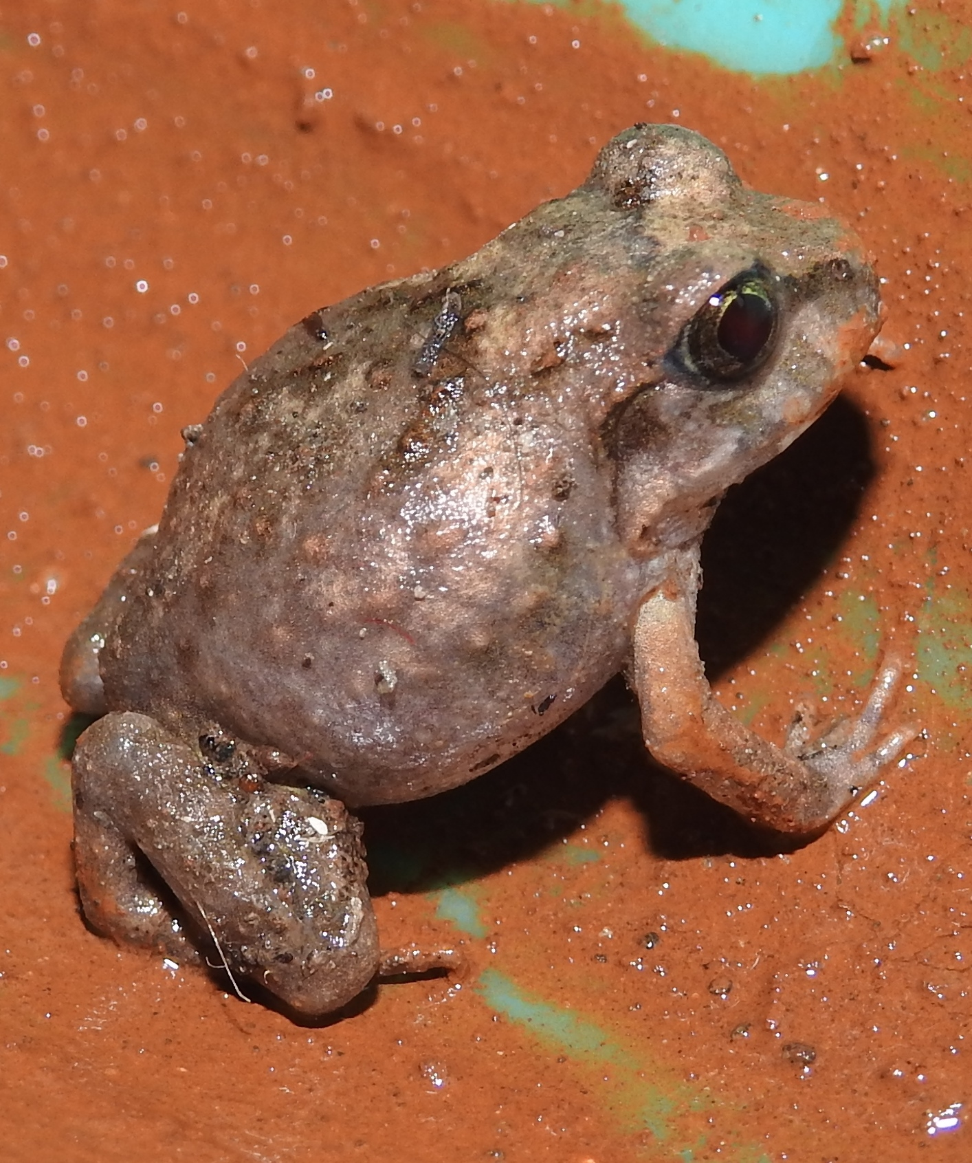 Burrowing Frog Sphaerotheca breviceps juvenile. Clicked by Dr. Raju Kasambe in BNHS Conservation Education Centre, Goregaon, Mumbai. Sanjay Gandhi National Park.